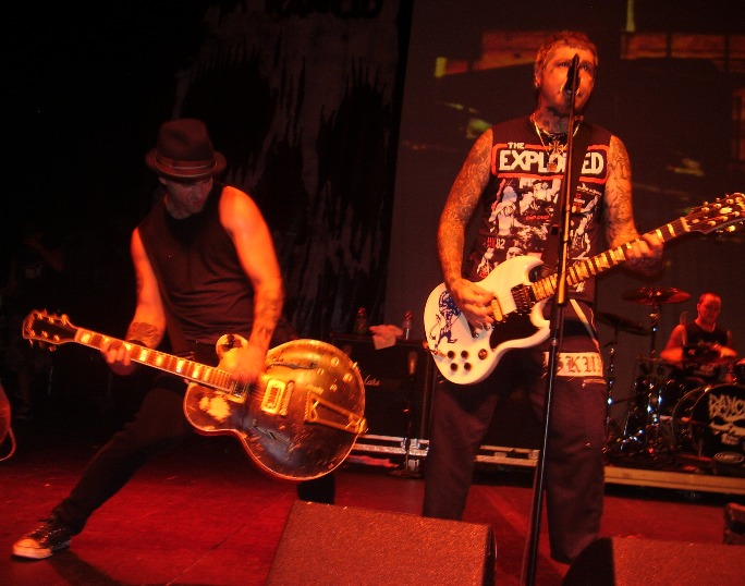 taken at the live show of Rancid in Ventura Theater, Ventura, California